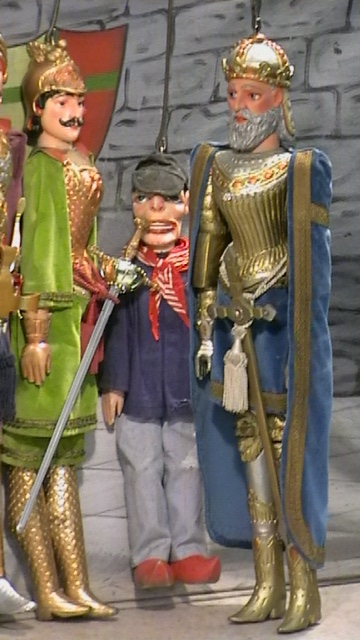 Liège marionnettes of Charlemagne (right) and Tchantchès (middle) Walon: Marionetes lidjwesses di Tchårlumagne (a droete) eyet Tchantchès (å mitan)